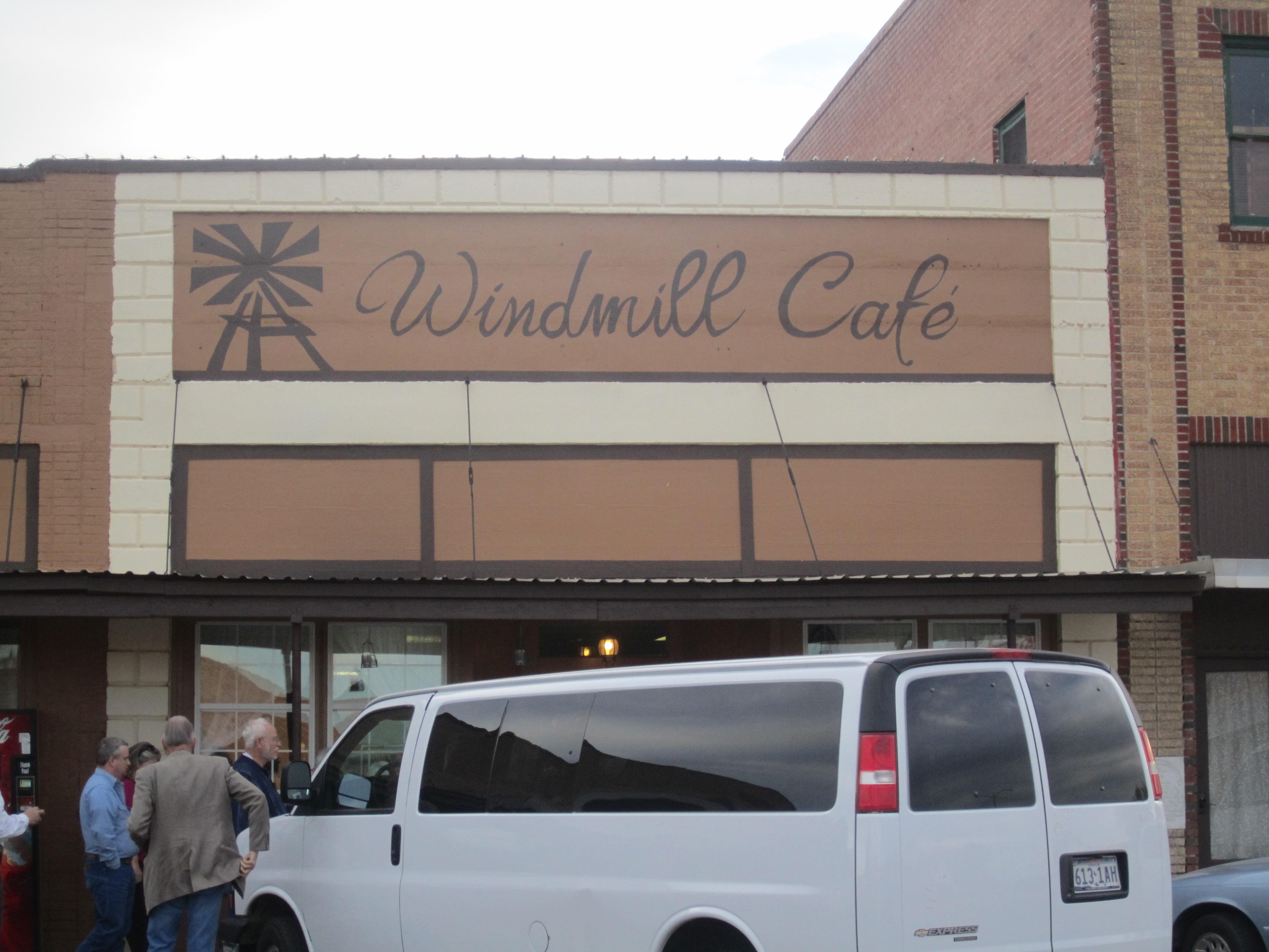 I took photo with Canon camera in Roaring Springs, TX.